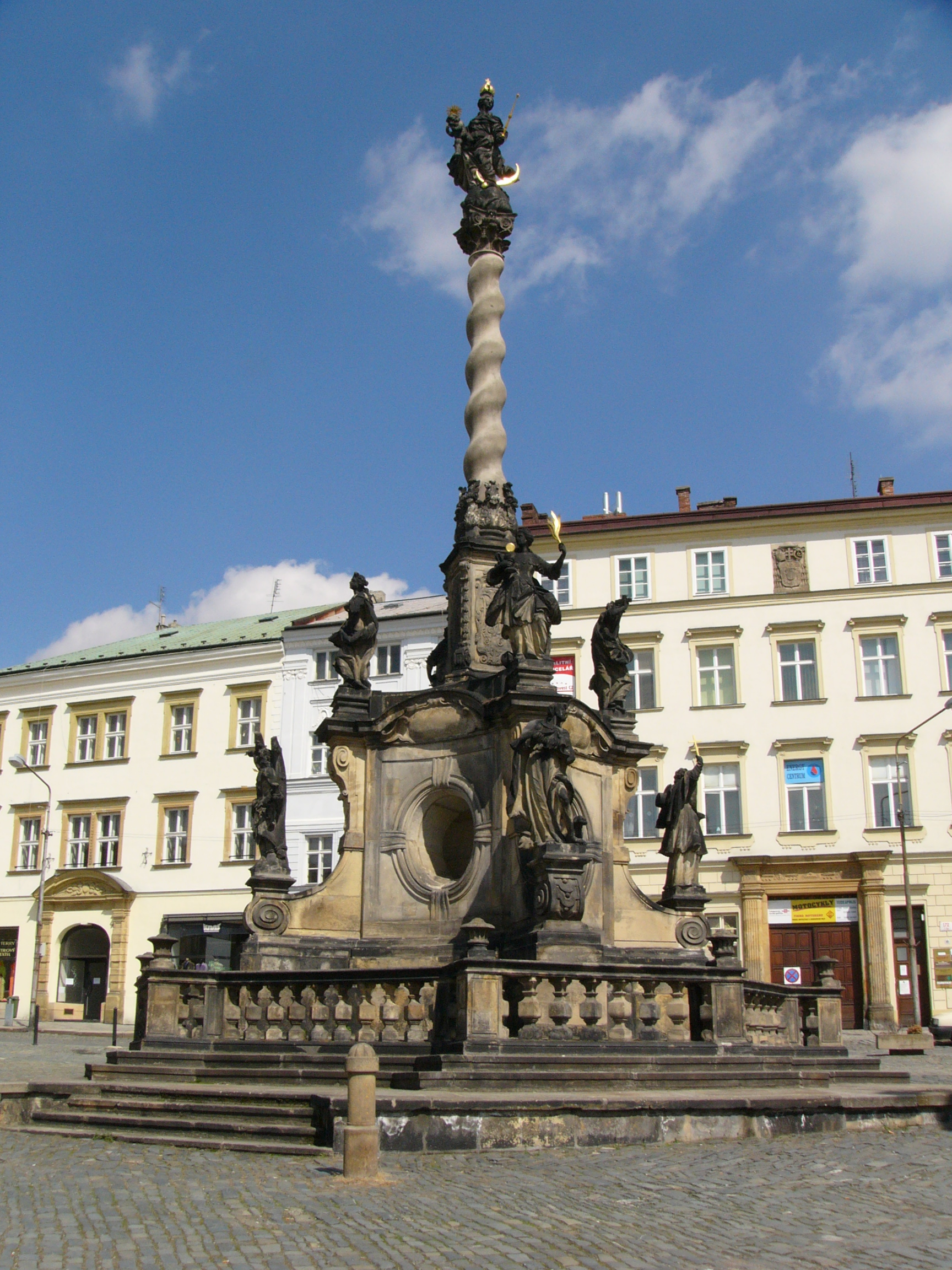 Marian Plague column at Lower square in Olomouc (Czech Republic).